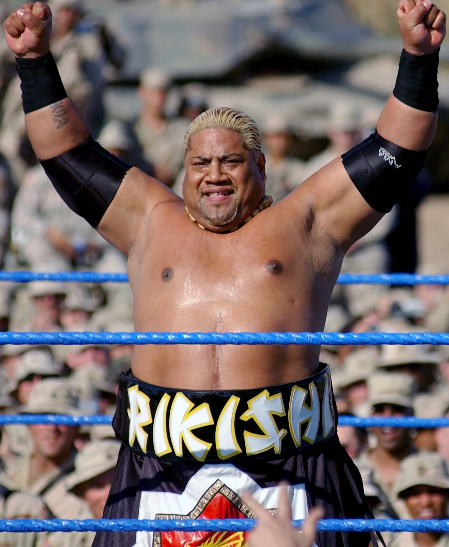 World Wrestling Entertainment (WWE) superstar Rikishi performs for the troops at Camp Victory, Baghdad International Airport (BIAP), Iraq (IRQ) during Operation IRAQI FREEDOM.